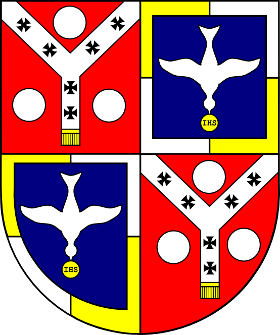 Coat of arms (shield only) of archbishop Július Gábriš, apostolic administrator of Trnava, Slovakia (1973 - 1987) before 1979; based on drawing in Schematism of Slovak Catholic Dioceses 1978.